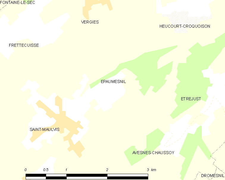 Map of French municipality Épaumesnil